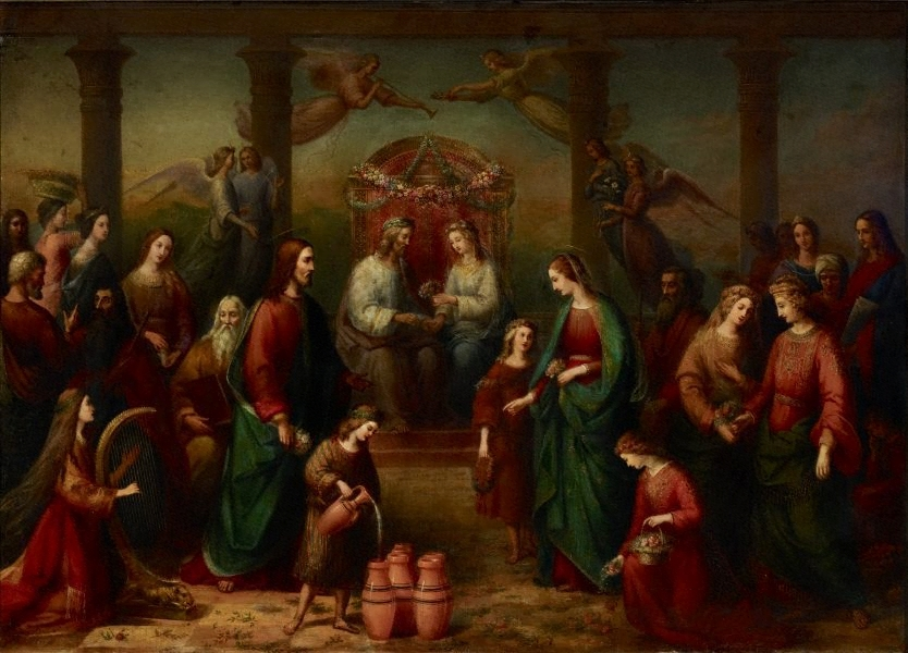 Marriage at Cana of Galilee by Adelaide Ironside 1861-3